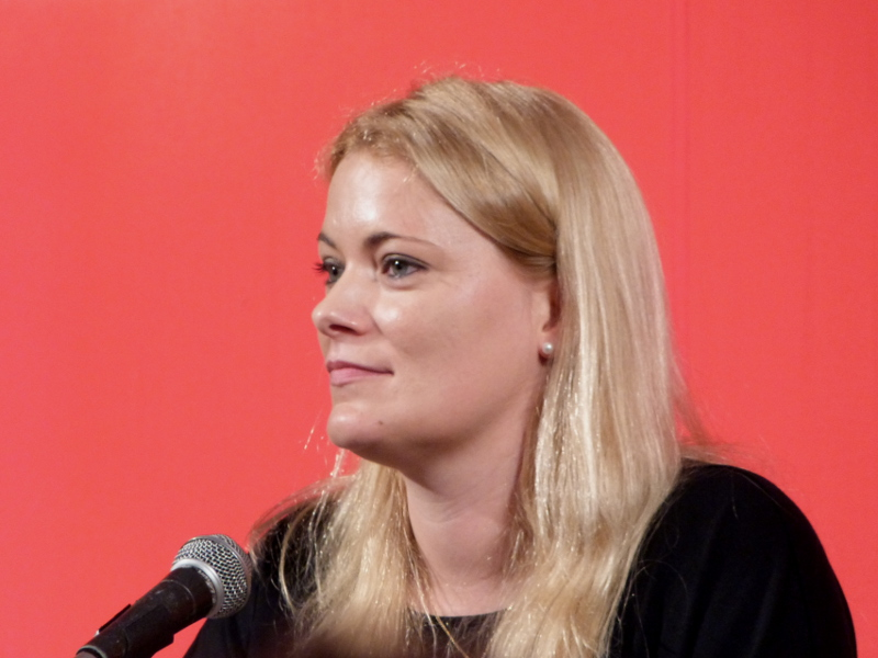 German writer Ricarda Junge at the Erlanger Poetenfest 2014.